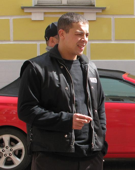 Andrey Lavrov, Russian actor